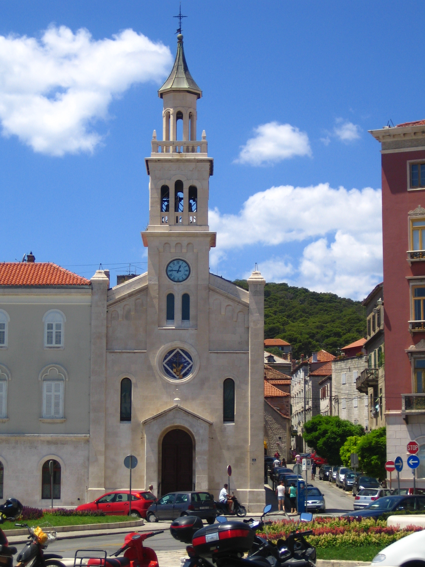 Facade of Saint Francis church in Split, Croatia